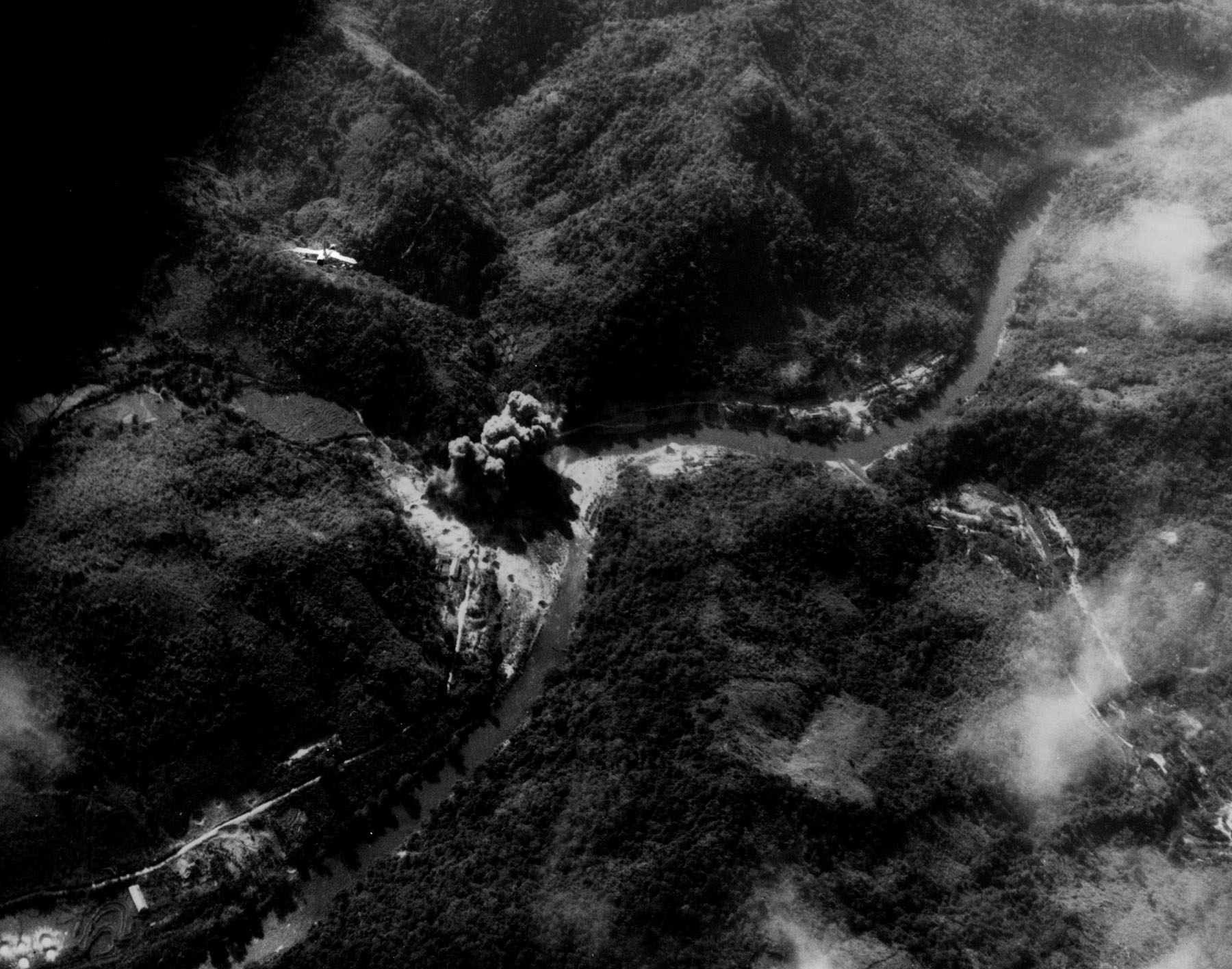 A U.S. Air Force Republic F-105D Thunderchief (visible in the upper left part of the photo) attacking a bridge in southern North Vietnam, 1966.